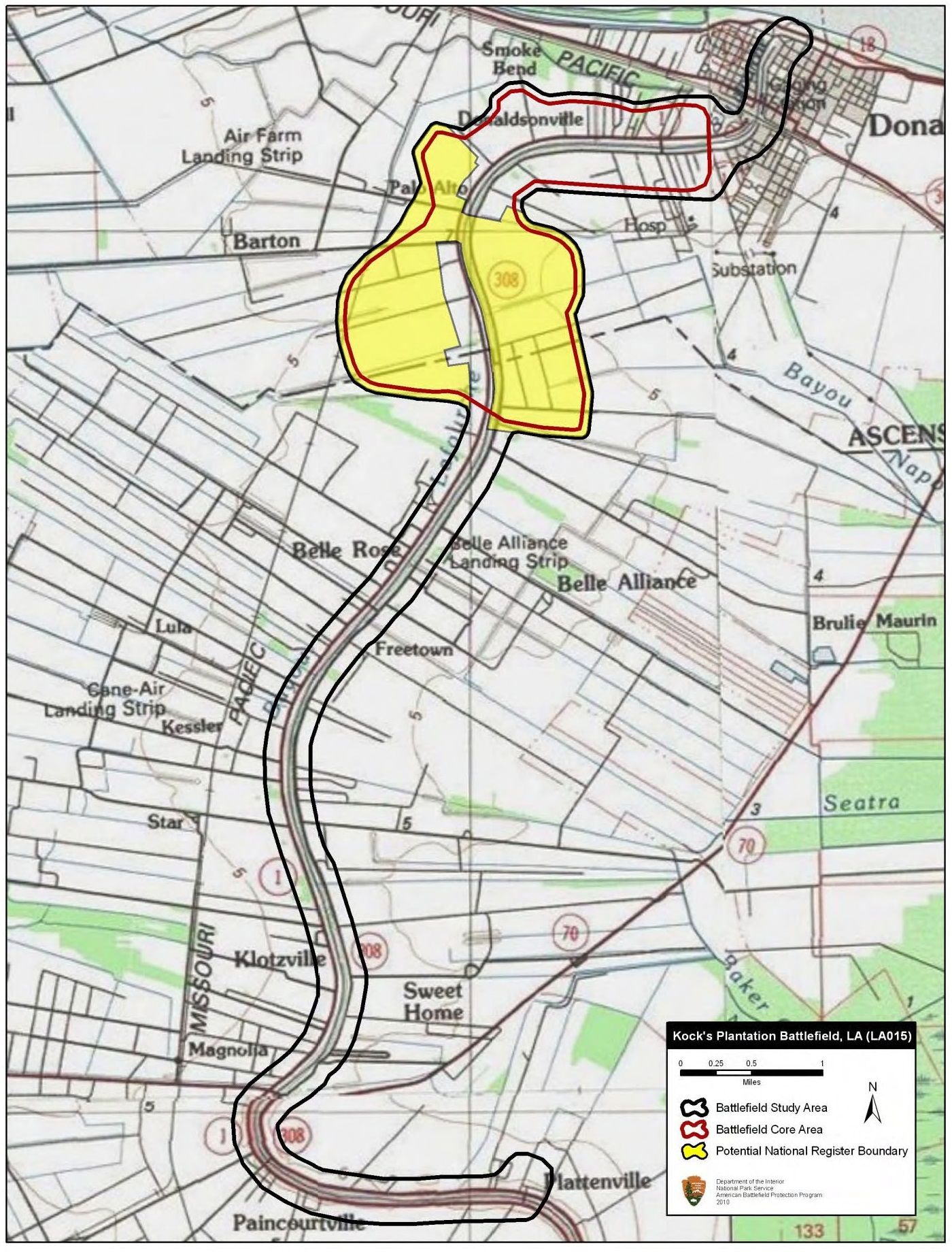 Map of battlefield core and study areas. The revised Study Area includes the route taken by Confederate forces from Plattenville in their effort to intercept BG Weitzel’s command. The Core Area was expanded to represent the running fight between Federals and Confederates back into Donaldsonville.